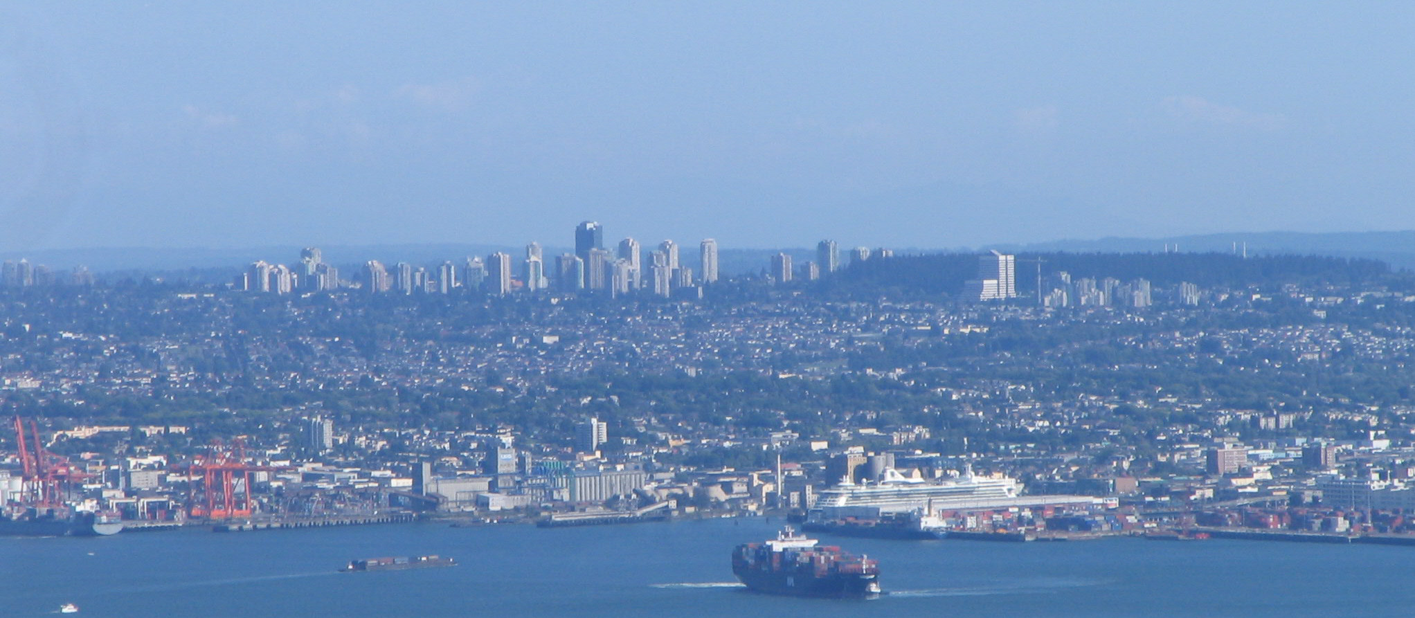 This image was created by me, Flying Penguin of Pacific Spirit Photography ( of Burnaby, British Columbia, Canada.